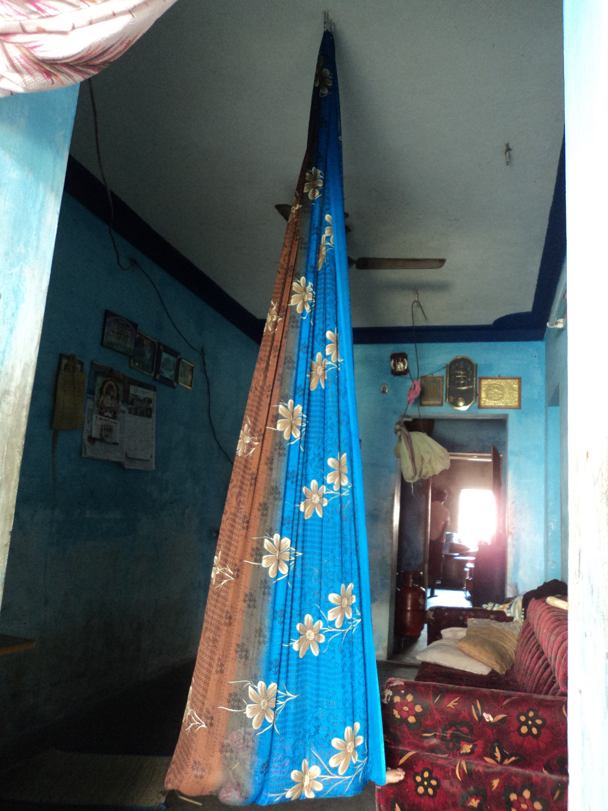 some important event/culture in central (Attur town, Salem district) Tamil Nadu